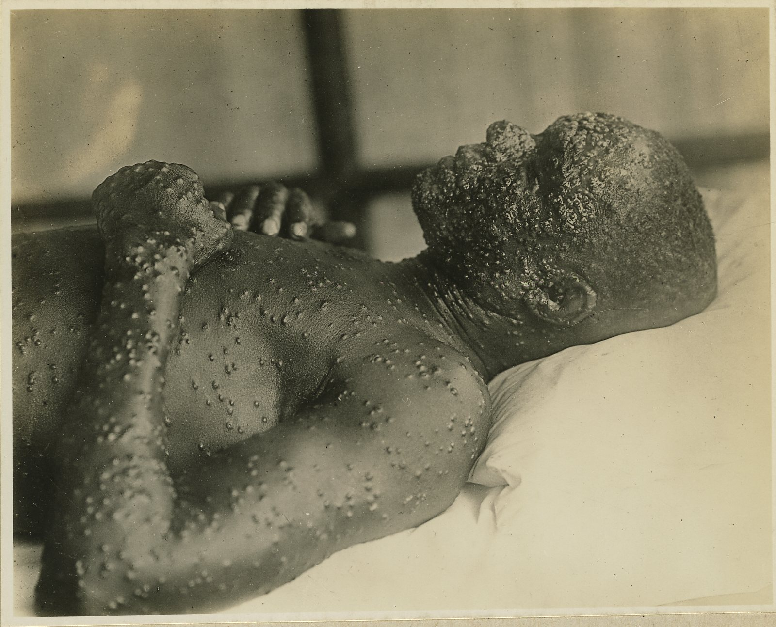 Smallpox ; Ref:Reeve 48135